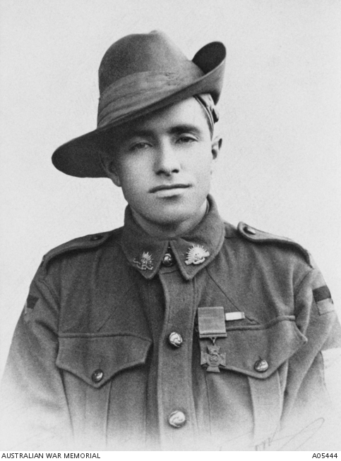 Private Henry (Harry) Dalziel, awarded Victoria Cross, wearing a bandage under his hat